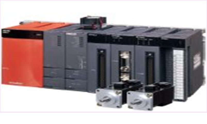 Mitsubishi A_series_PLC